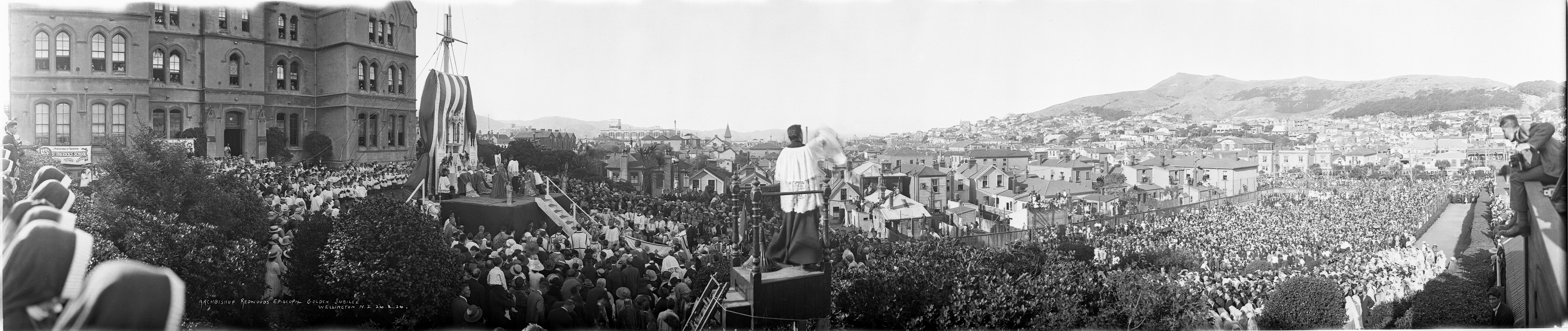 Photographer: Robert Percy Moore Archbishop Redwood's Episcopal Golden Jubilee, Wellington, 24 February 1924 Panoramic negative Reference No. Pan-0003-F Photographic Archive, Alexander Turnbull Library, National Library of New Zealand See a zoomable image on our Timeframes website